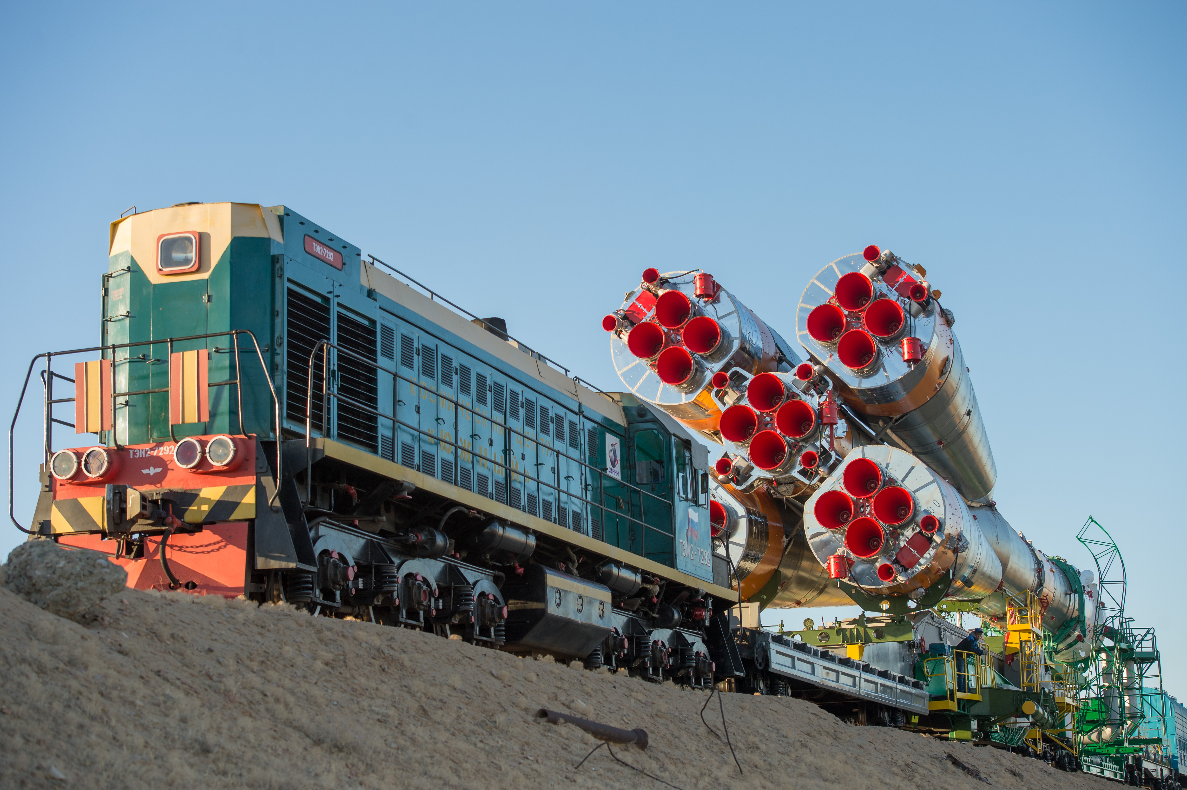 The Soyuz rocket is rolled out to the launch pad by train on Monday, Sept. 23, 2013, at the Baikonur Cosmodrome in Kazakhstan. Launch of the Soyuz rocket is scheduled for September 26 and will send Expedition 37 Soyuz Commander Oleg Kotov, NASA Flight Engineer Michael Hopkins and Russian Flight Engineer Sergei Ryazansky on a five and a half-month mission aboard the International Space Station.